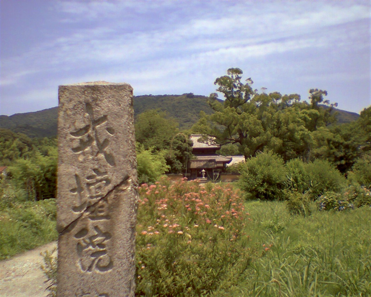 This photograph is a temple named Kaidanin (or Kaidan-in